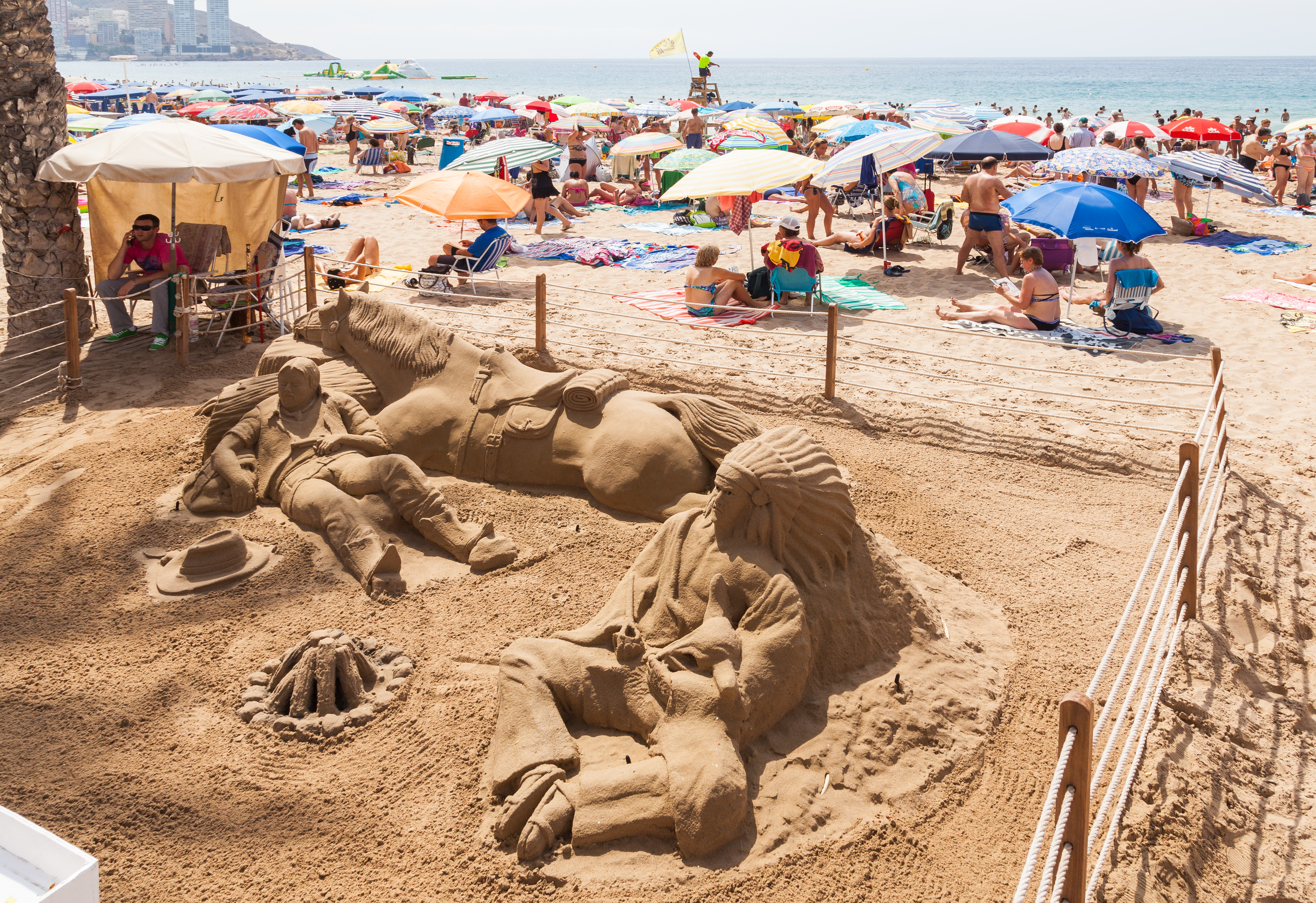 Levante beach, Benidorm, Spain